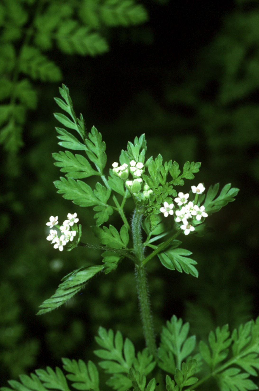 Chaerophyllum procumbens (L.) Crantz (spreading chervil)